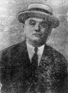 Dimitrios Bezas